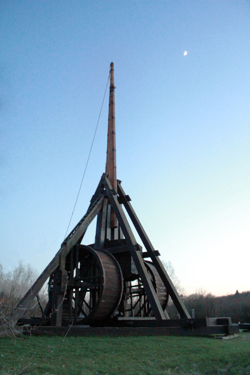 Trebuchet at Middelaldercentret, on Lolland, near Nykøbing Falster, Denmark.